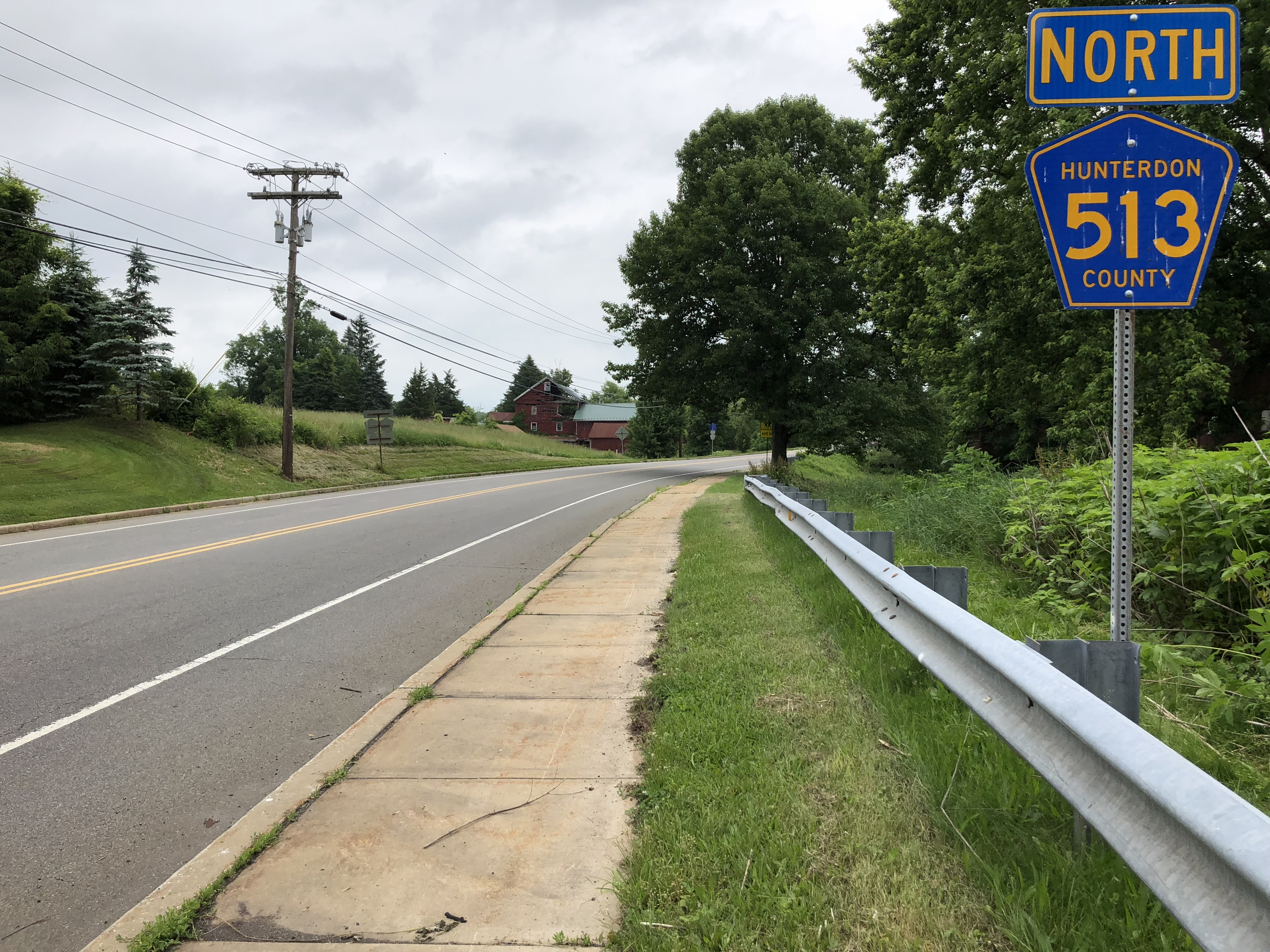 View north along Hunterdon County Route 513 (Everittstown Road) just north of Hunterdon County Route 519 (Little York-Mount Pleasant Road/Palmyra Corner Road) in Alexandria Township, Hunterdon County, New Jersey